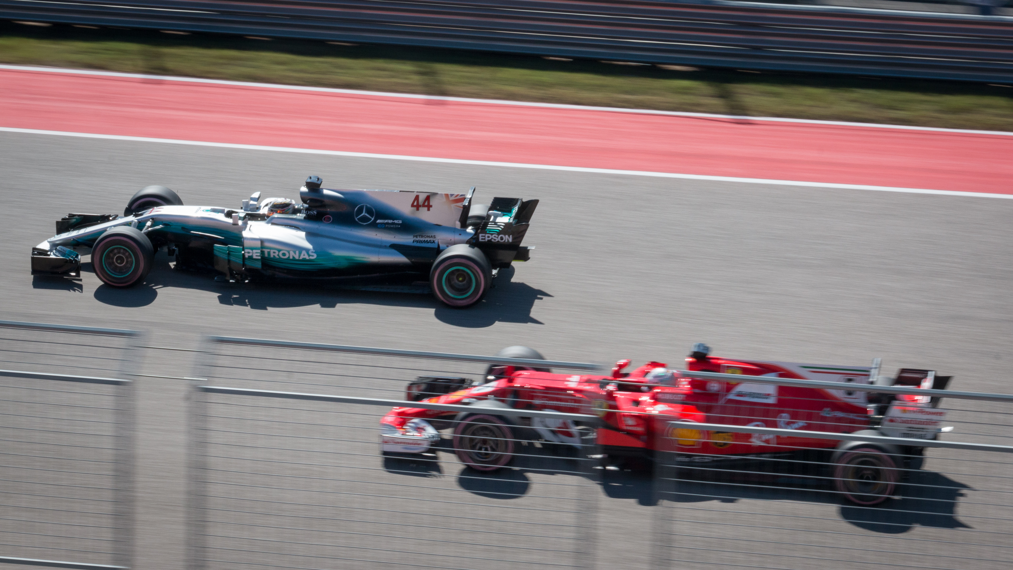 USGP Austin Oct 2017